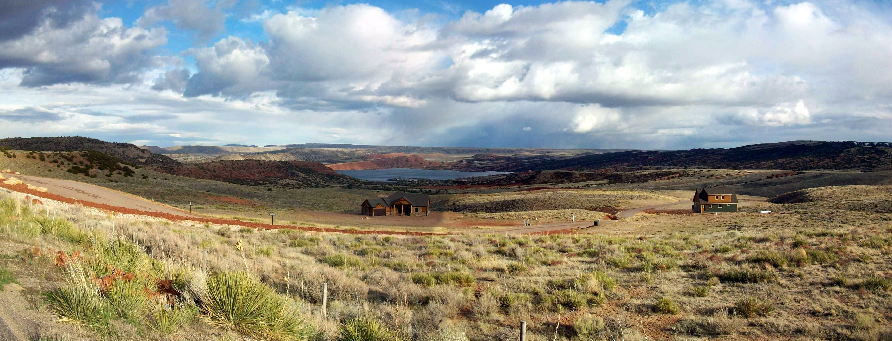 Alcova Reservoir and CDP from Wyoming 220, a highway north of the area.